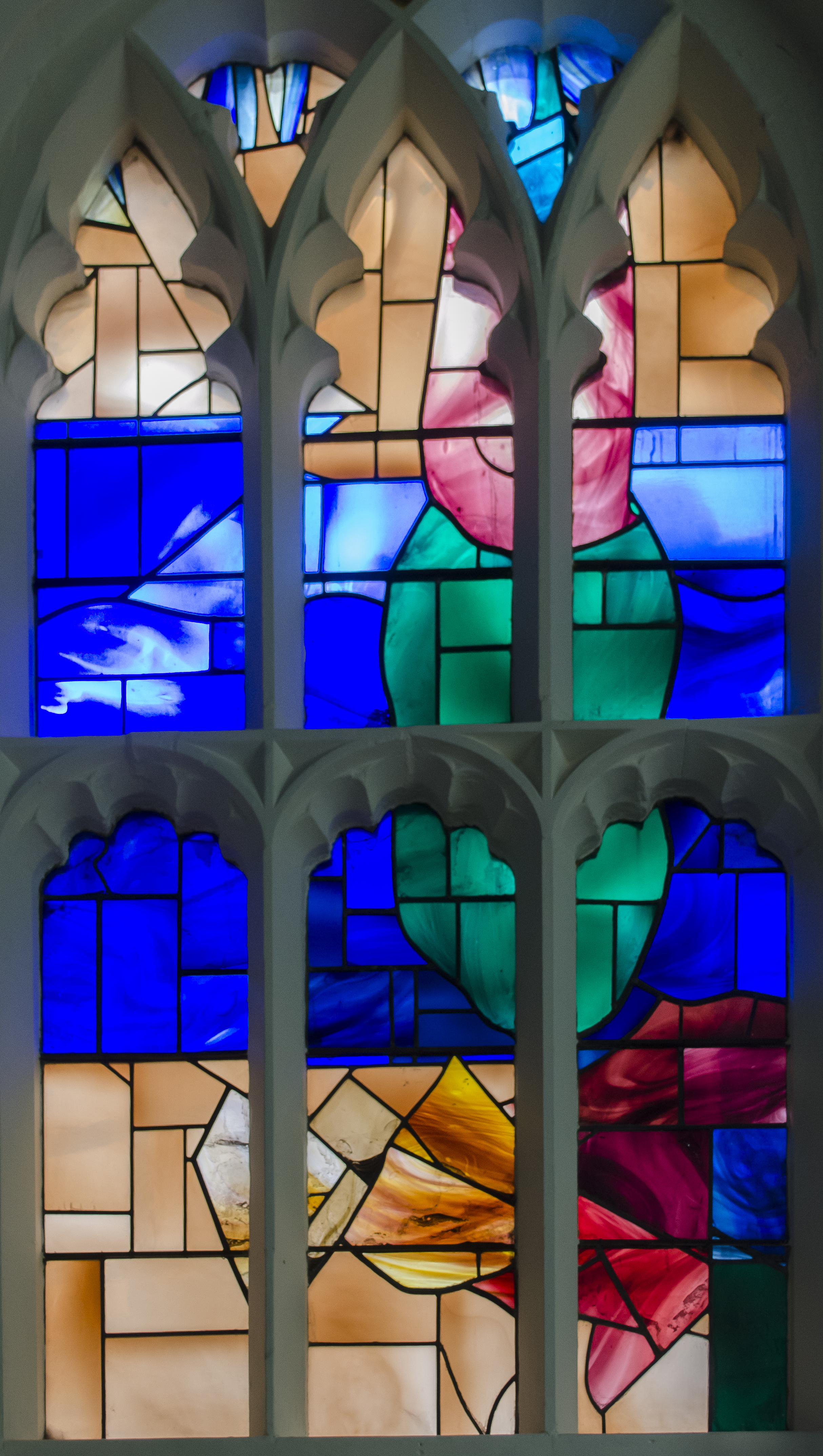 Designed by Margaret Traherne and created by Angelo Camenzuli of Hammersmith, 1976. One of two.